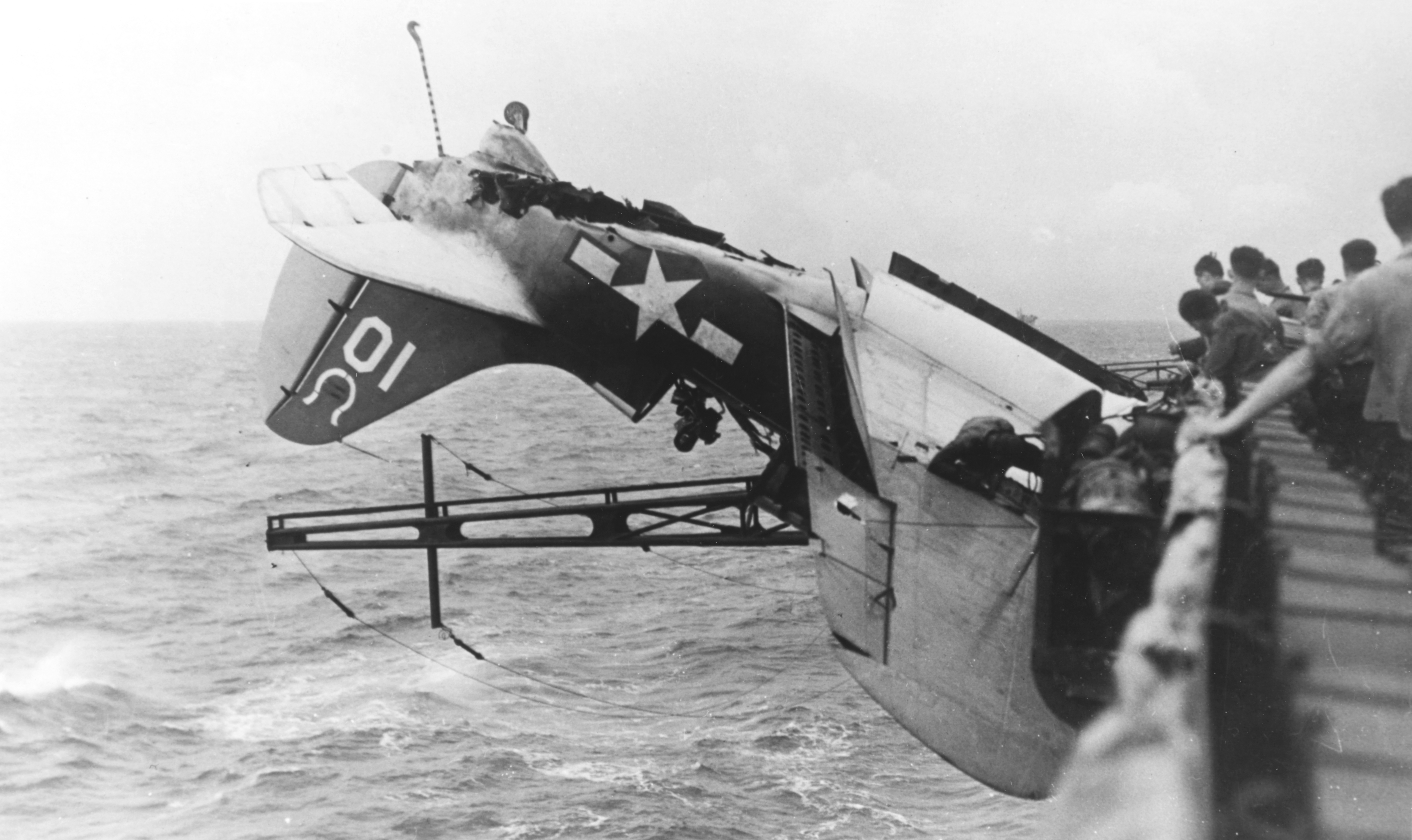 A U.S. Navy Curtiss SB2C-3 Helldiver caught in the after radio mast of the aircraft carrier USS Intrepid (CV-11) after a night landing accident on 30 October 1944. The plane was assigned to Bombing Squadron 7 (VB-7) aboard USS Hancock (CV-19).